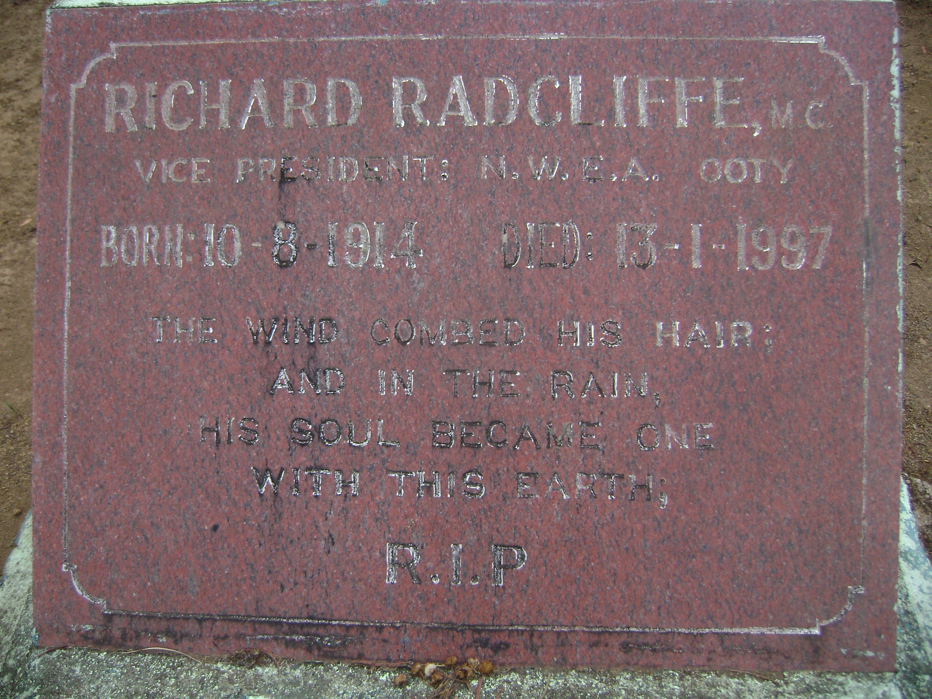 Memorial stone at NWEA fishing hut for RICHARD RADCLIFFE M.C., VICE PRESIDENT N.W.E.A., OOTY BORN 10-8-1914 DIED 13-1-1997 THE WIND COMBED HIS HAIR AND WHEN IT RAINED HIS SOUL BECAME ONE WITH THIS EARTH R.I.P.